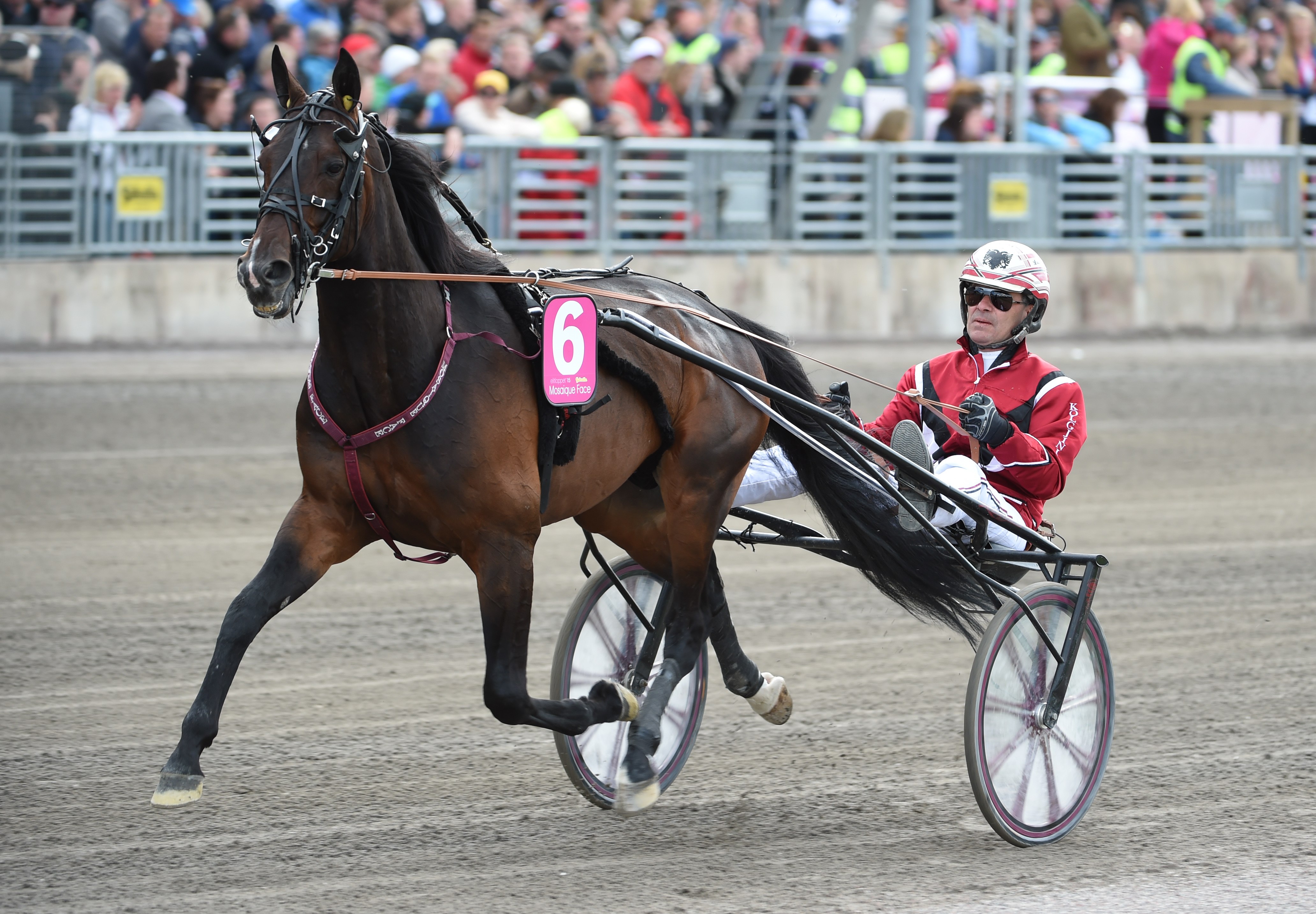 Mosaique Face and Lutfi Kolgjini at Elitloppet 2015.